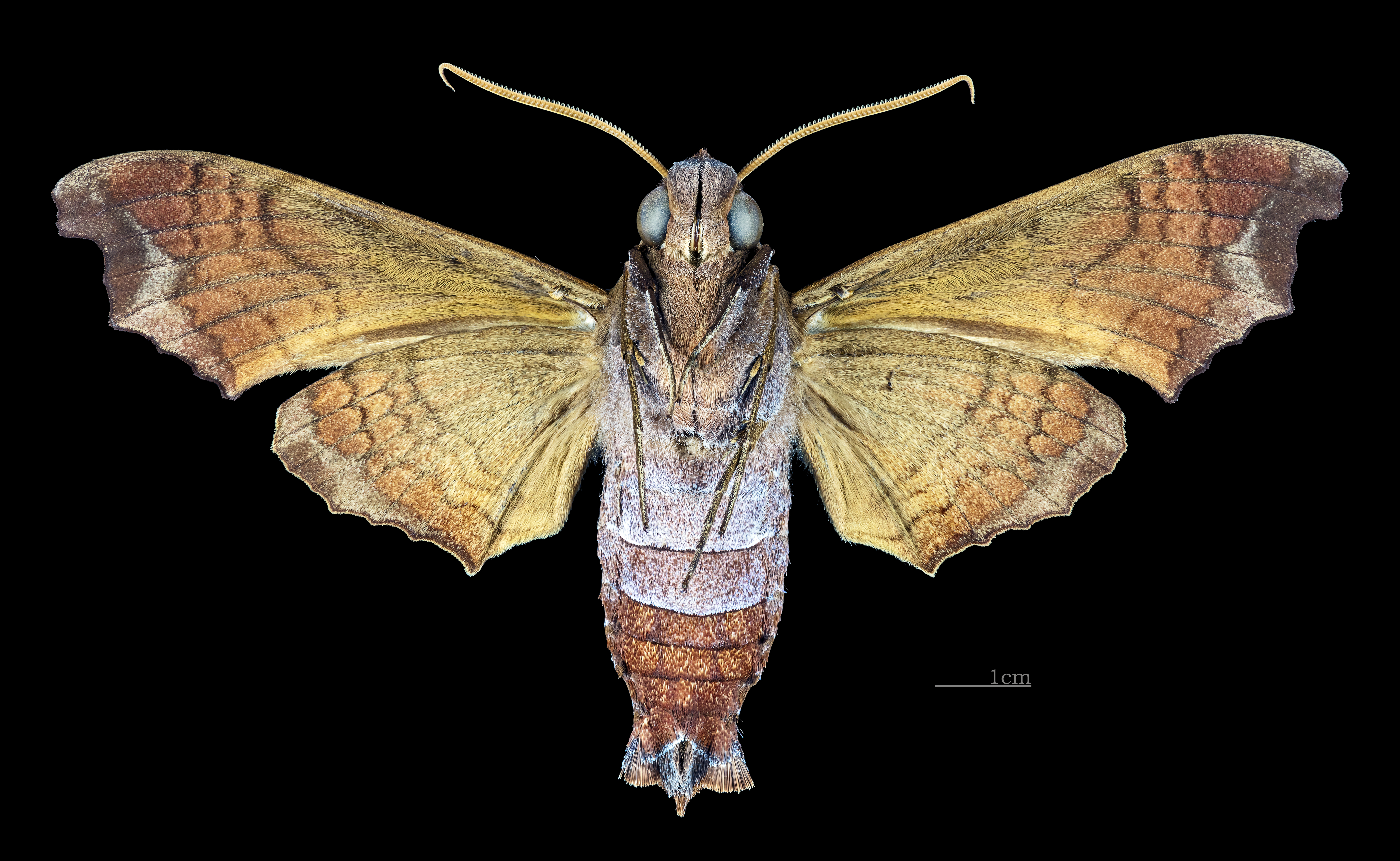 Nyceryx tacita - △ Ventral side Collection of the Mathematician Laurent Schwartz